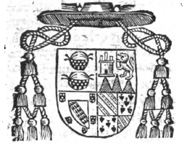 Stemma of Cardinal Pedro Pacheco (died 1560)